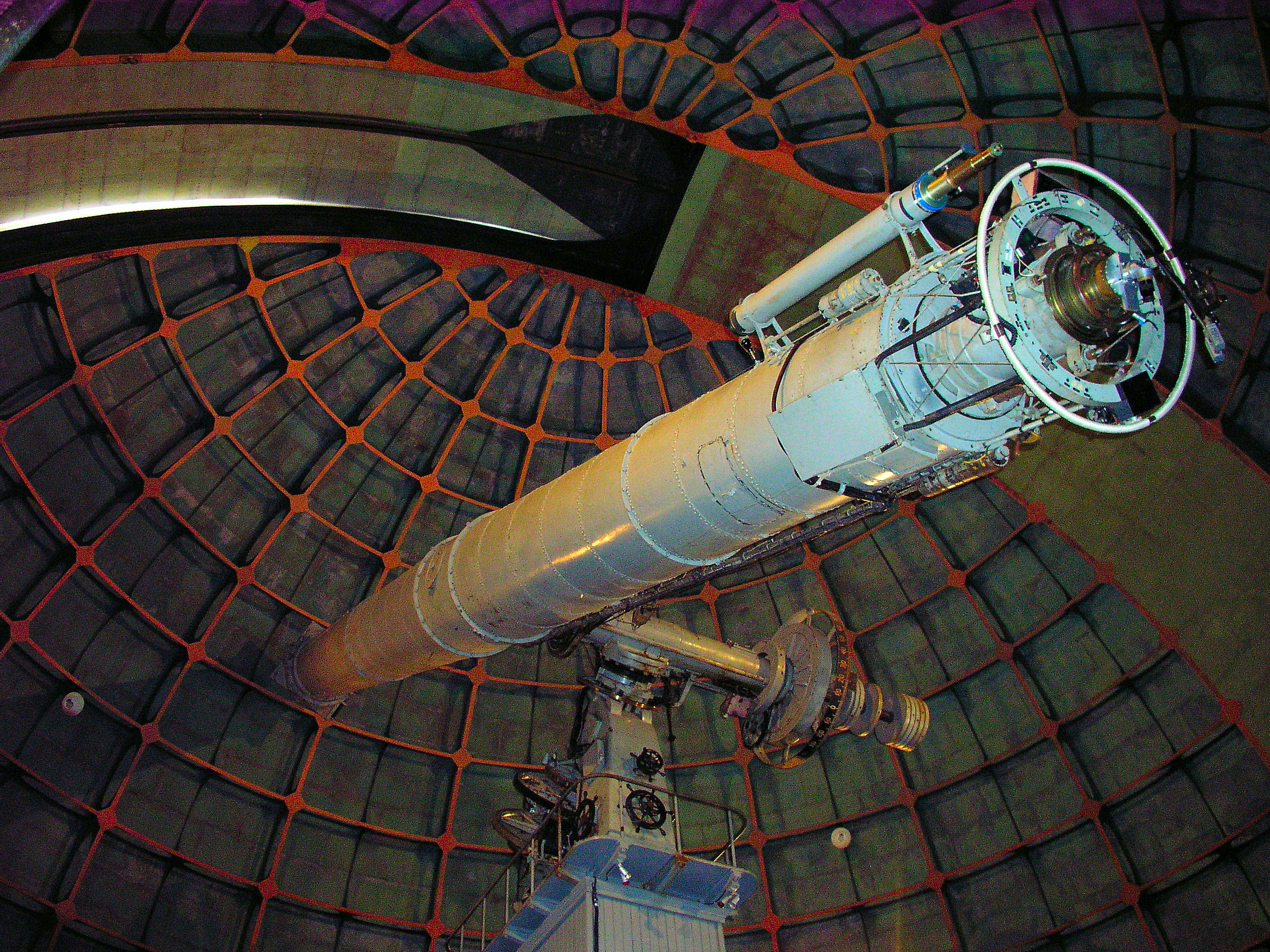 "The Great Lick Refractor" Lick Observatory was built during the years 1880 to 1888. The 36-inch refractor was fabricated at the same time, and one dome was built specifically for this telescope. "36-inch" refers to the diameter of the refracting lenses, one of which is pictured at the right. When completed, the Lick Refractor was the largest refracting telescope in the world. Even today, it is second in size only to the 40-inch Yerkes Observatory refractor. Located in the large dome of the main observatory building, the Great Lick refractor is 57 feet long, 4 feet in diameter, and weighs over 25,000 lbs! The two 36-inch diameter glass disks were fabricated in France, and ground and polished into lenses in Massachussetts by Alvan Clark and his son Alvan G. Clark. It was a considerable challenge to transport these large pieces of glass across the ocean by ship, then (after grinding and polishing) across the country by railroad, and finally up the long, winding road to Mt. Hamilton by horse and carriage. One of the original lenses broke in transit, and it took several years and 18 attempts to fabricate the replacement lens, which finally arrived on Mt. Hamilton in 1886, as recorded in this historical lens arrival photo from the Mary Lea Shane Archives of the Lick Observatory. Just a last note. James Lick is burried below this telescope. More information about this great telescope